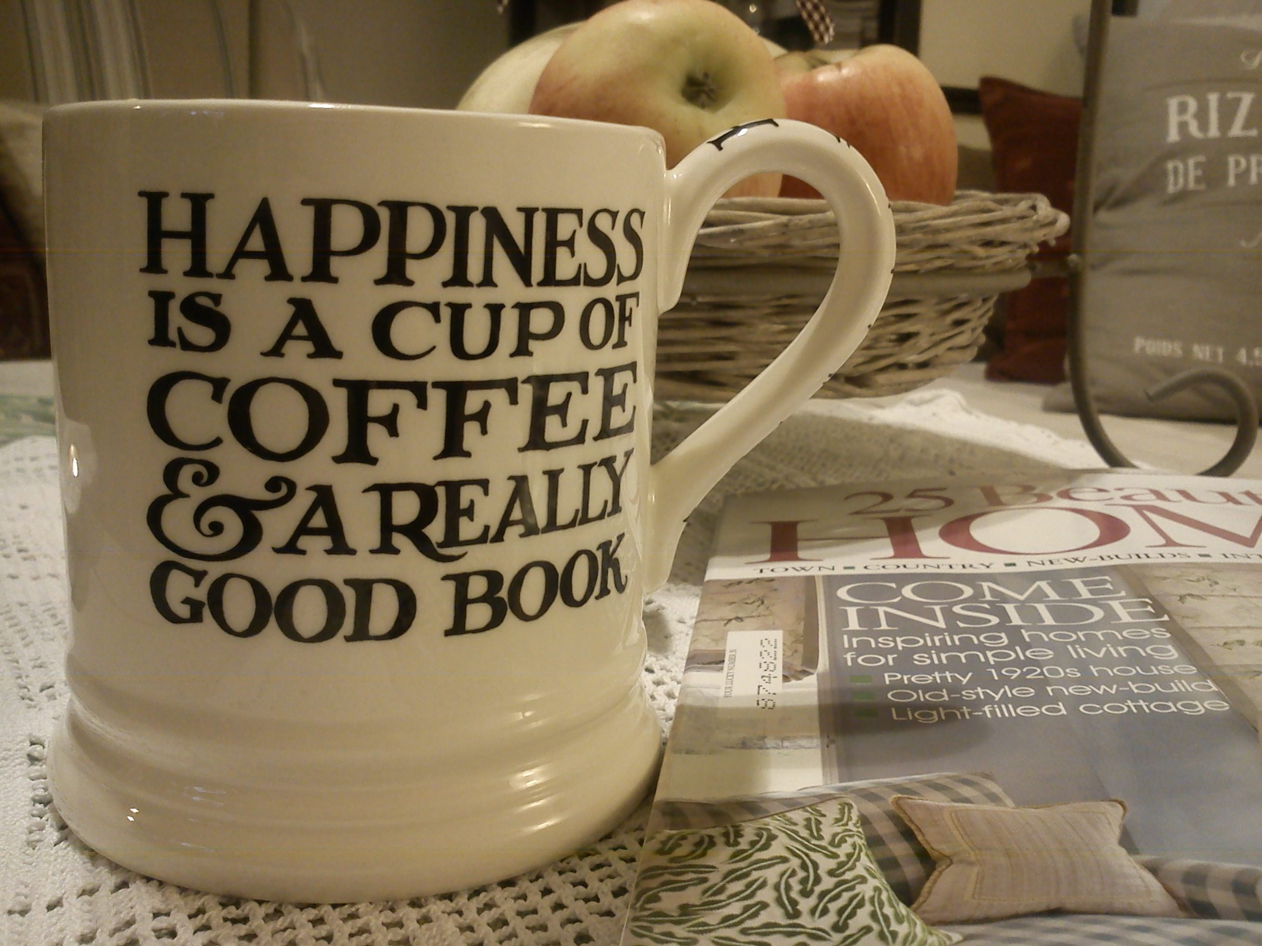 Emma Bridgewater /1/2 Pint Mug Black Toast Happiness